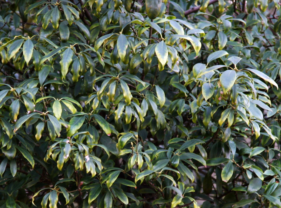 Illicium henryi